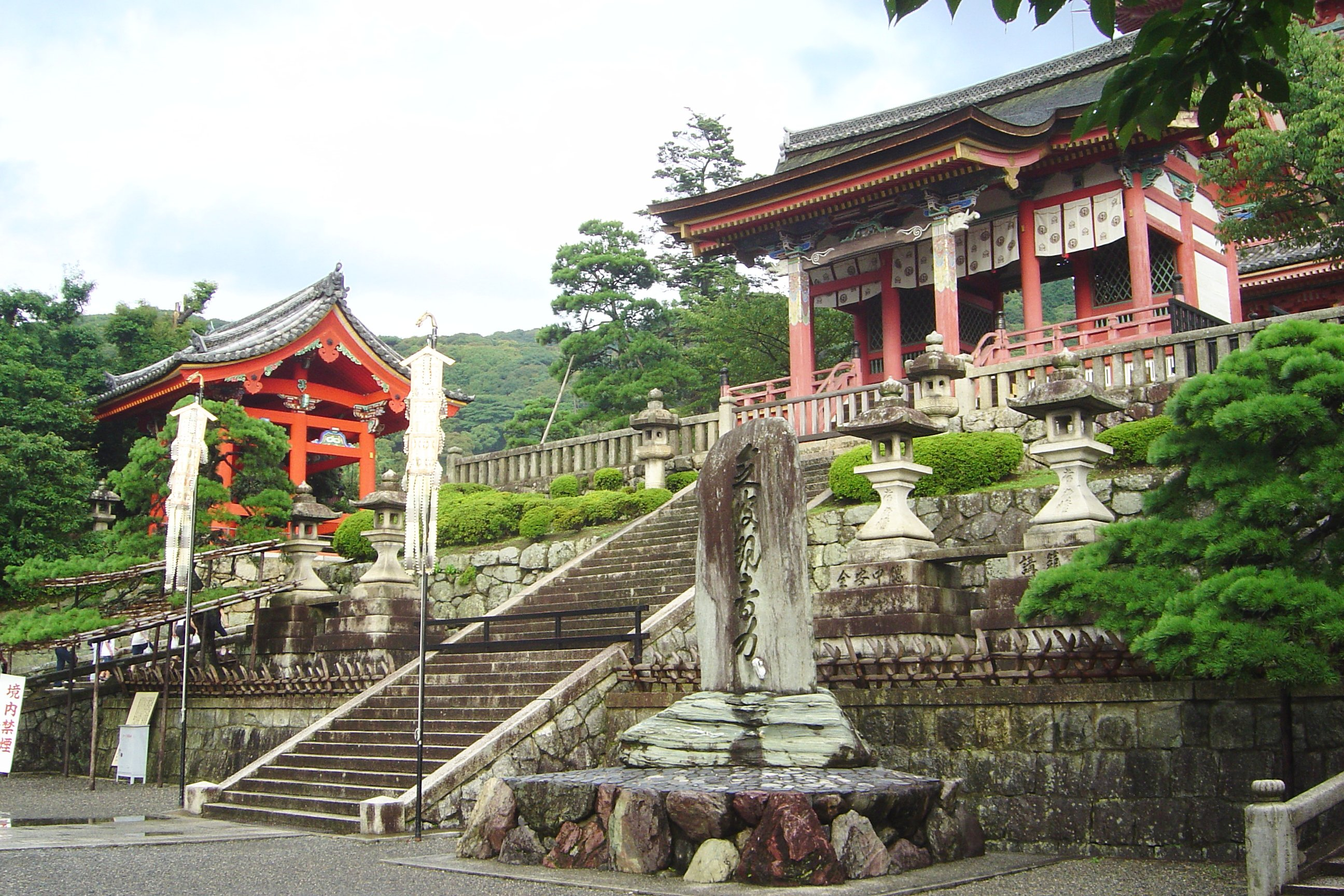 smaller temple buildings at the entrance to the Kiyomizu-dera in Kyoto, Japan (boosted colors)